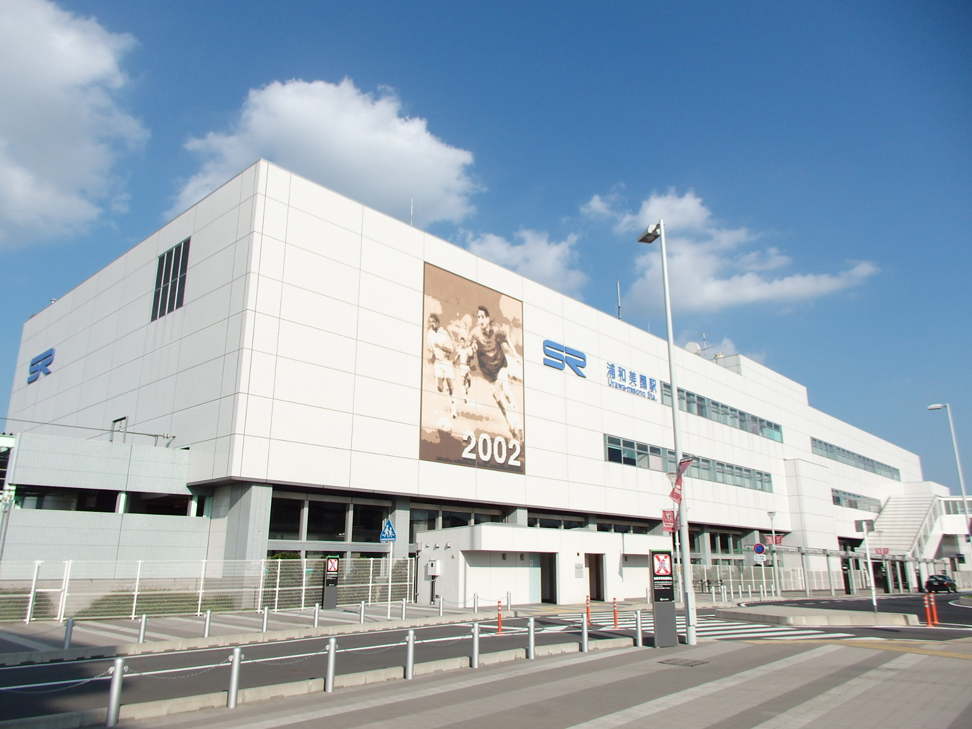 Urawa-Misono Station in Saitama Prefecture, Japan